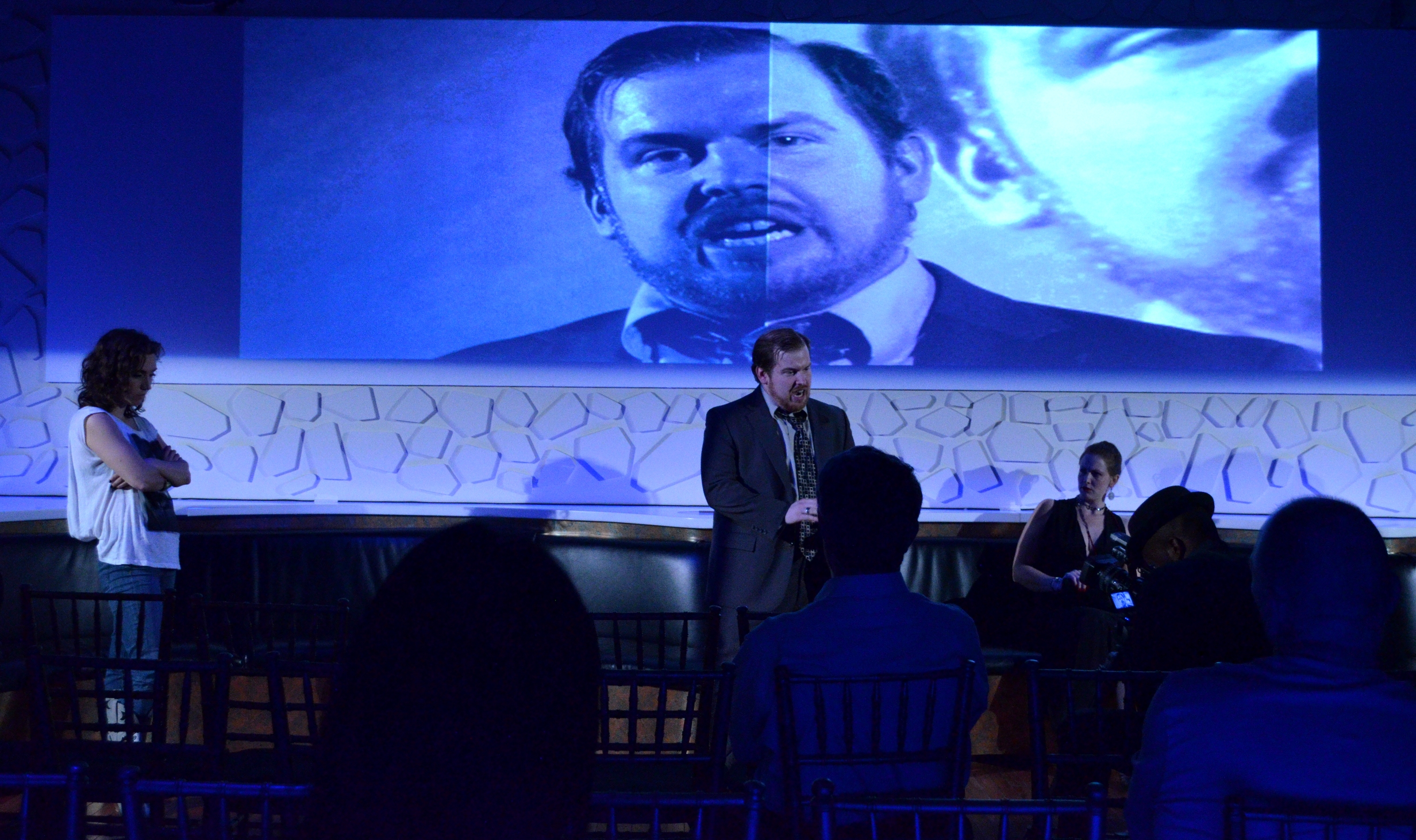 Photographs by Brittany Mazzurco